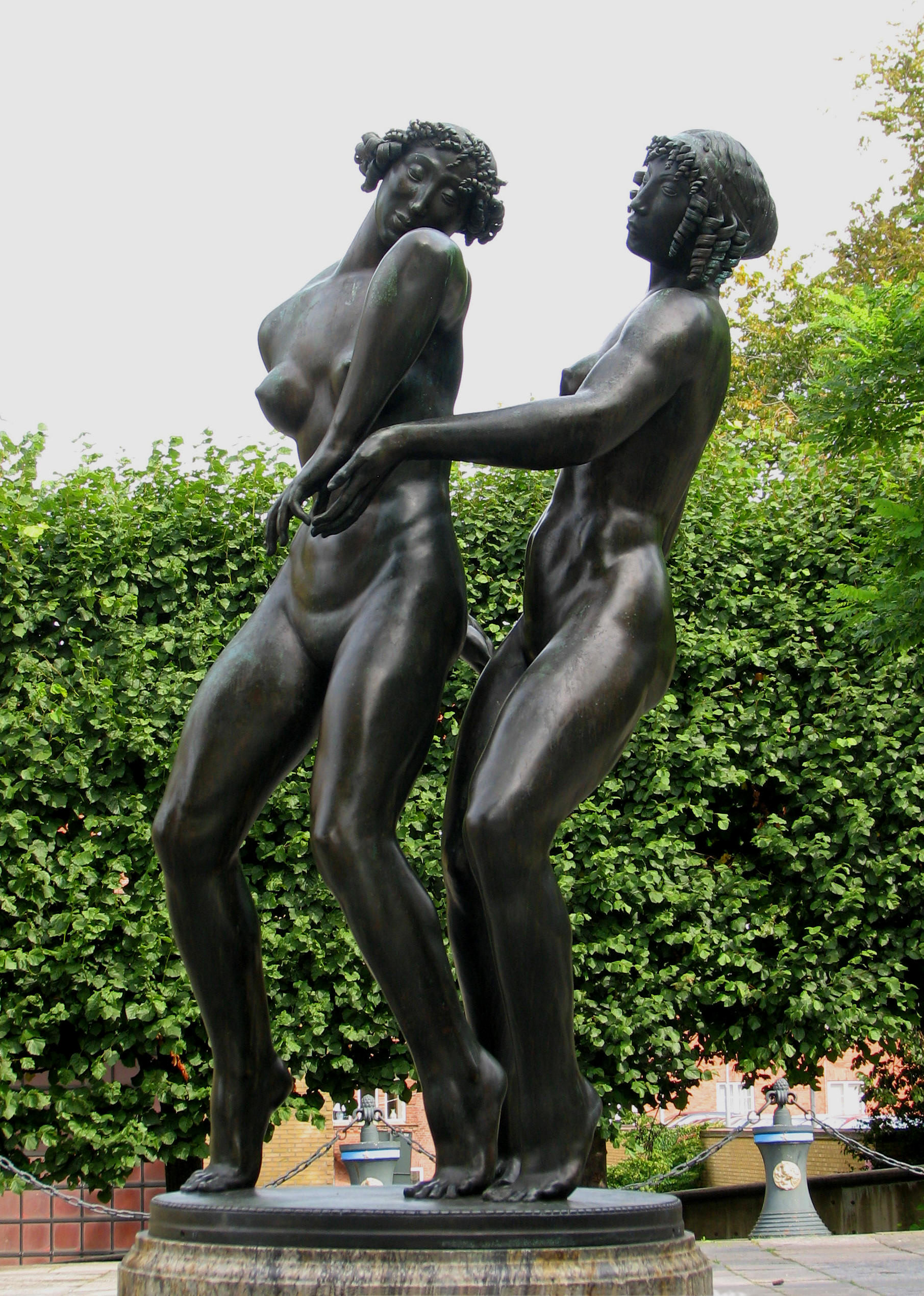 The sculpture Danserskorna by Carl Milles, placed outside the art museum in Göteborg, Sweden.